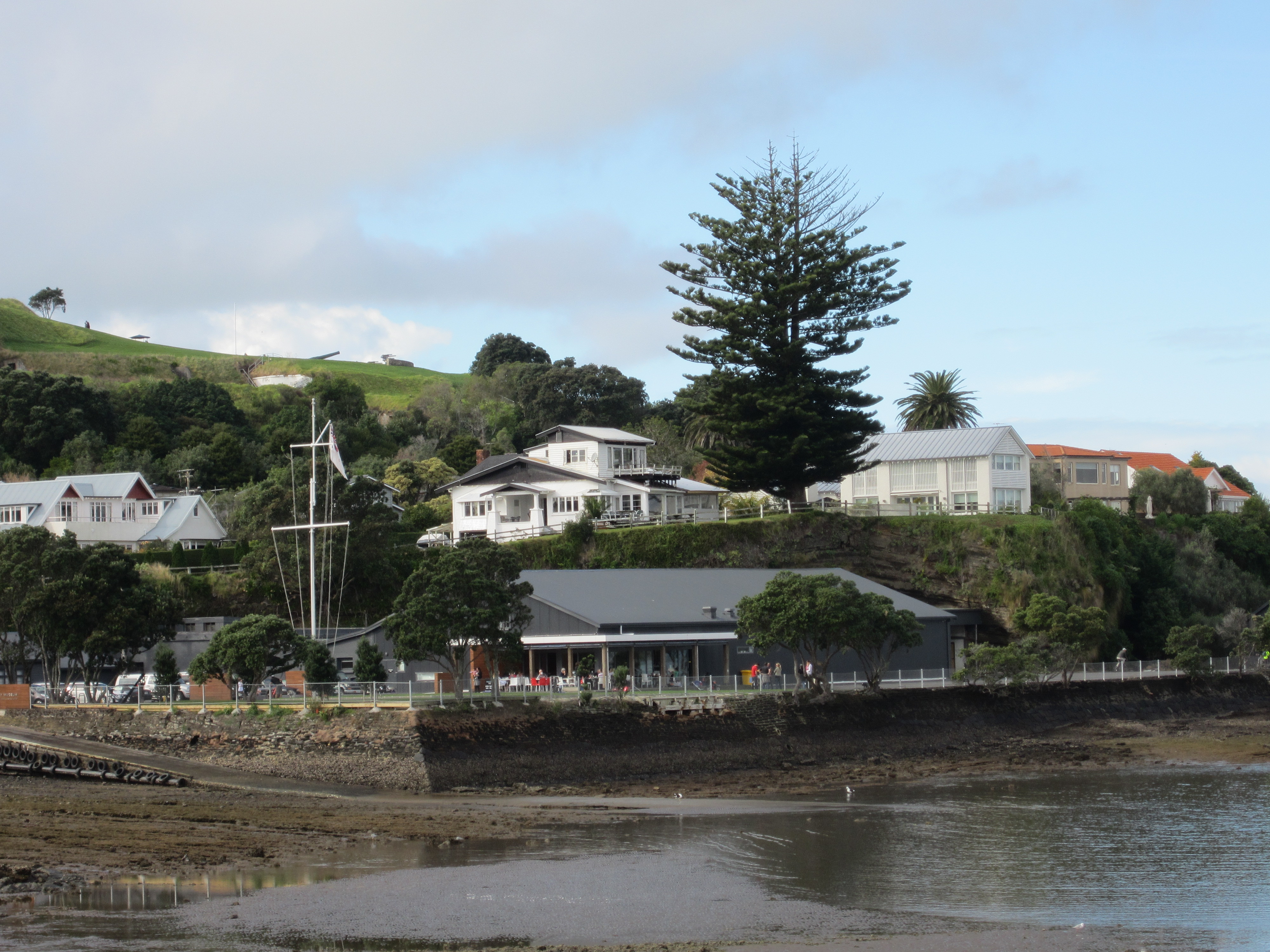 The Torpedo Bay Navy Museum (the black building in the centre of the image) in June 2012